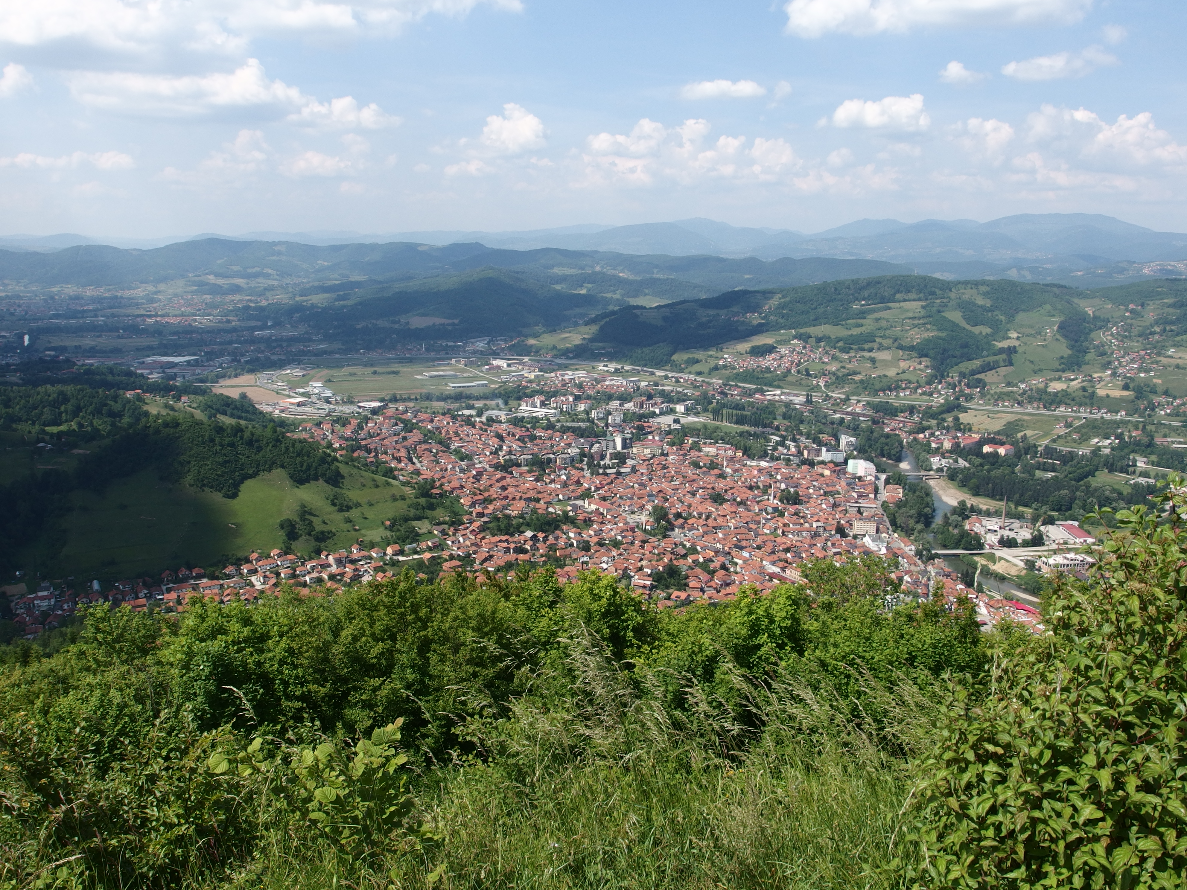 Visoko from the Visočica hill